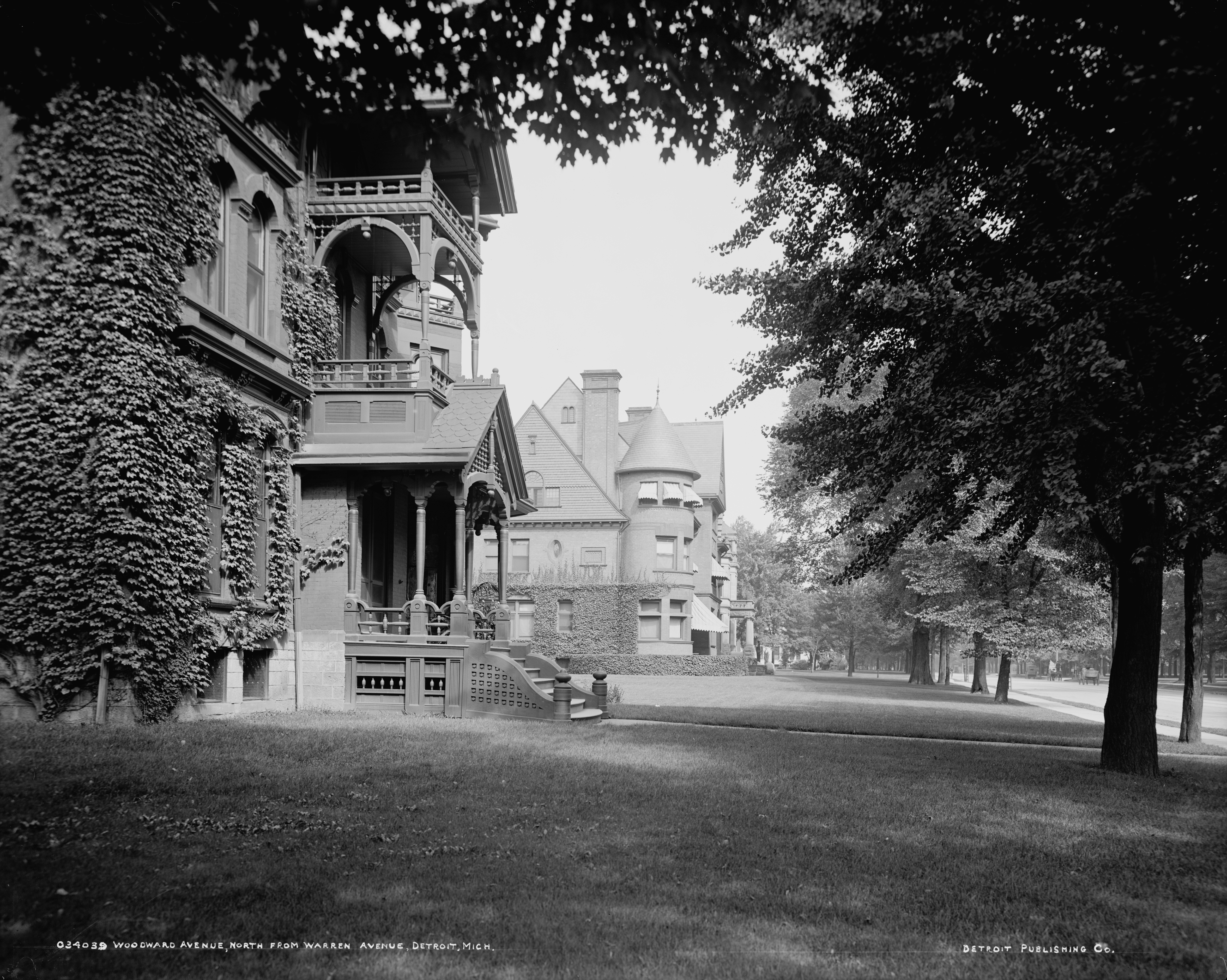 Victorian house on Woodward Avenue, north from Warren Avenue, Detroit, Michigan.